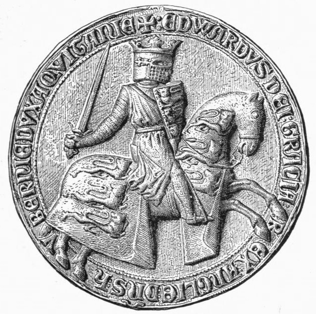 Edward I